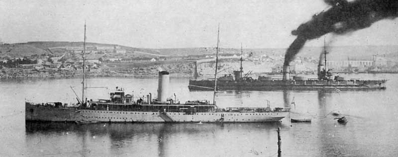 Auxiliary cruiser and seaplane carrier România in Russian service 1917. At right a battleship of the Imperatriza-Marija-class